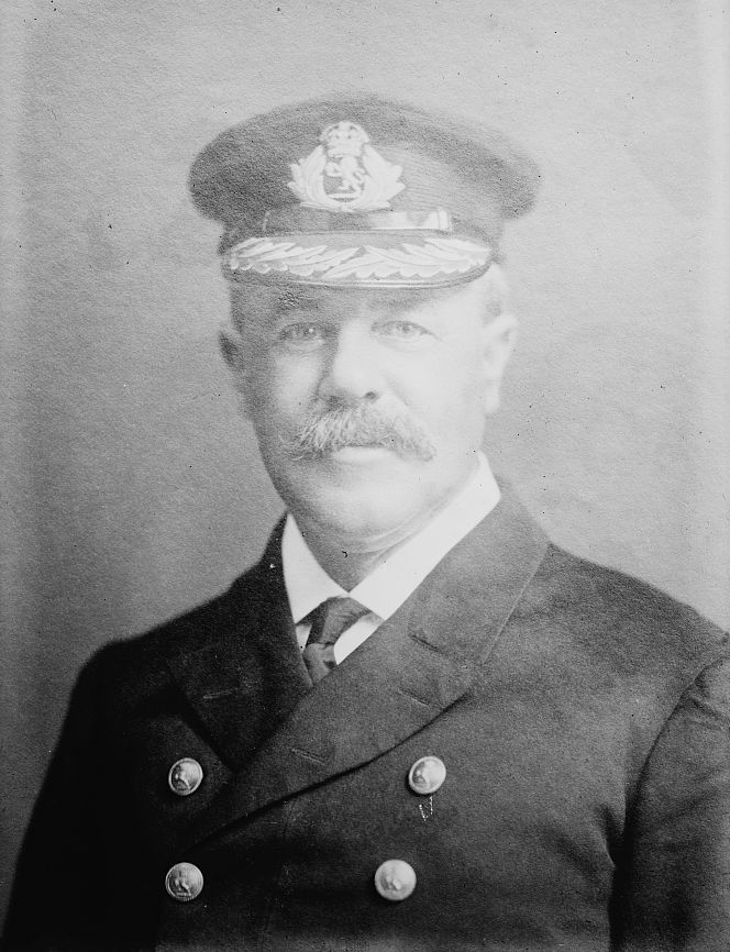 Captain James Clayton Barr of the RMS Carmania (1905).